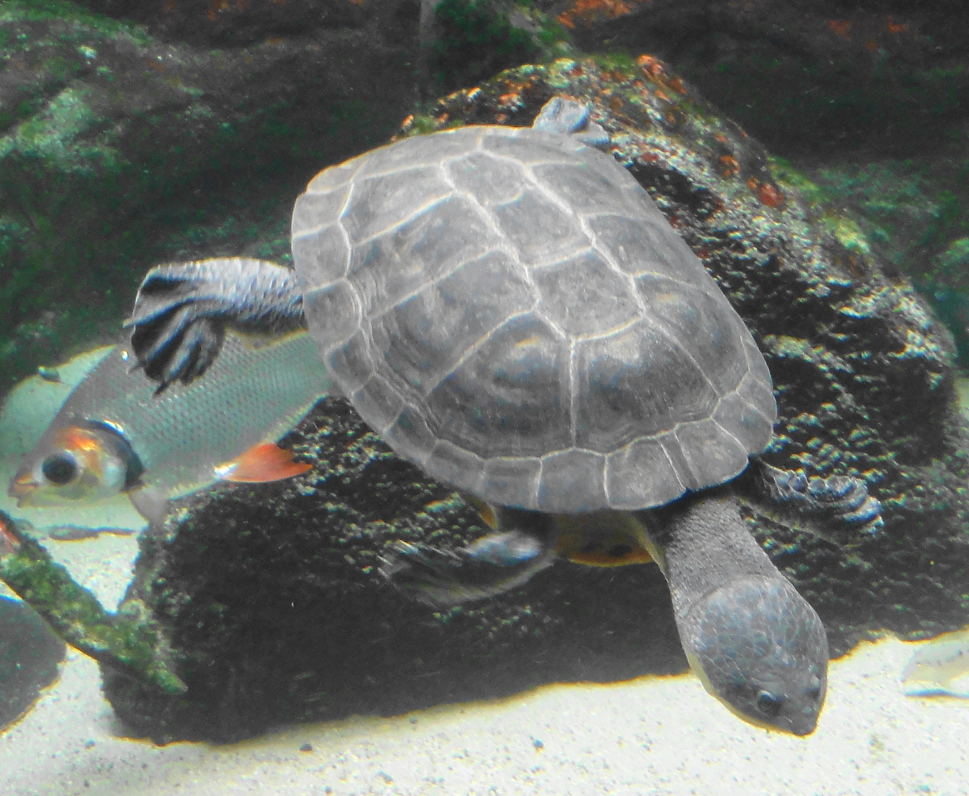 Phrynops geoffroanus